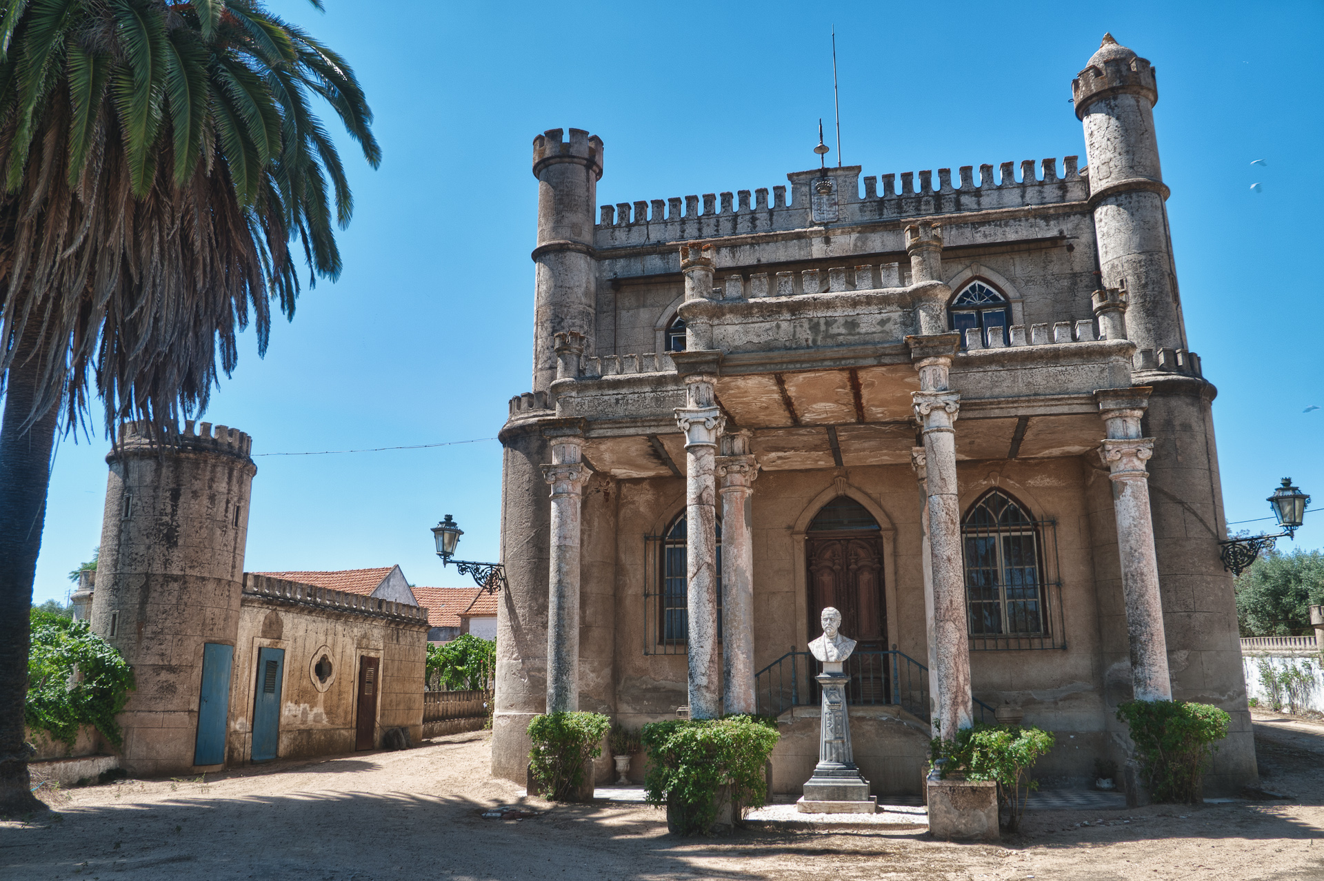 Façade of the Palace of the Count of Azarujinha